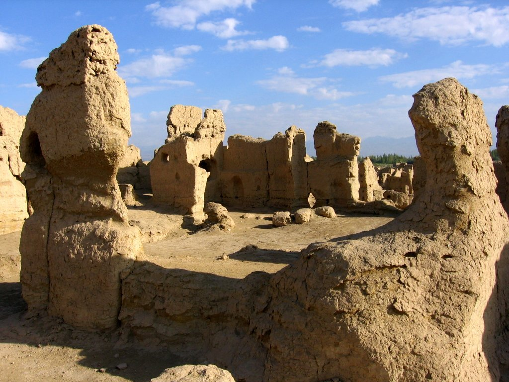 Turfan (Turpan/Tulufan) is an oasis city in the Xinjiang Uygur Autonomous Region of the People's Republic of China. Jiaohe ruins.